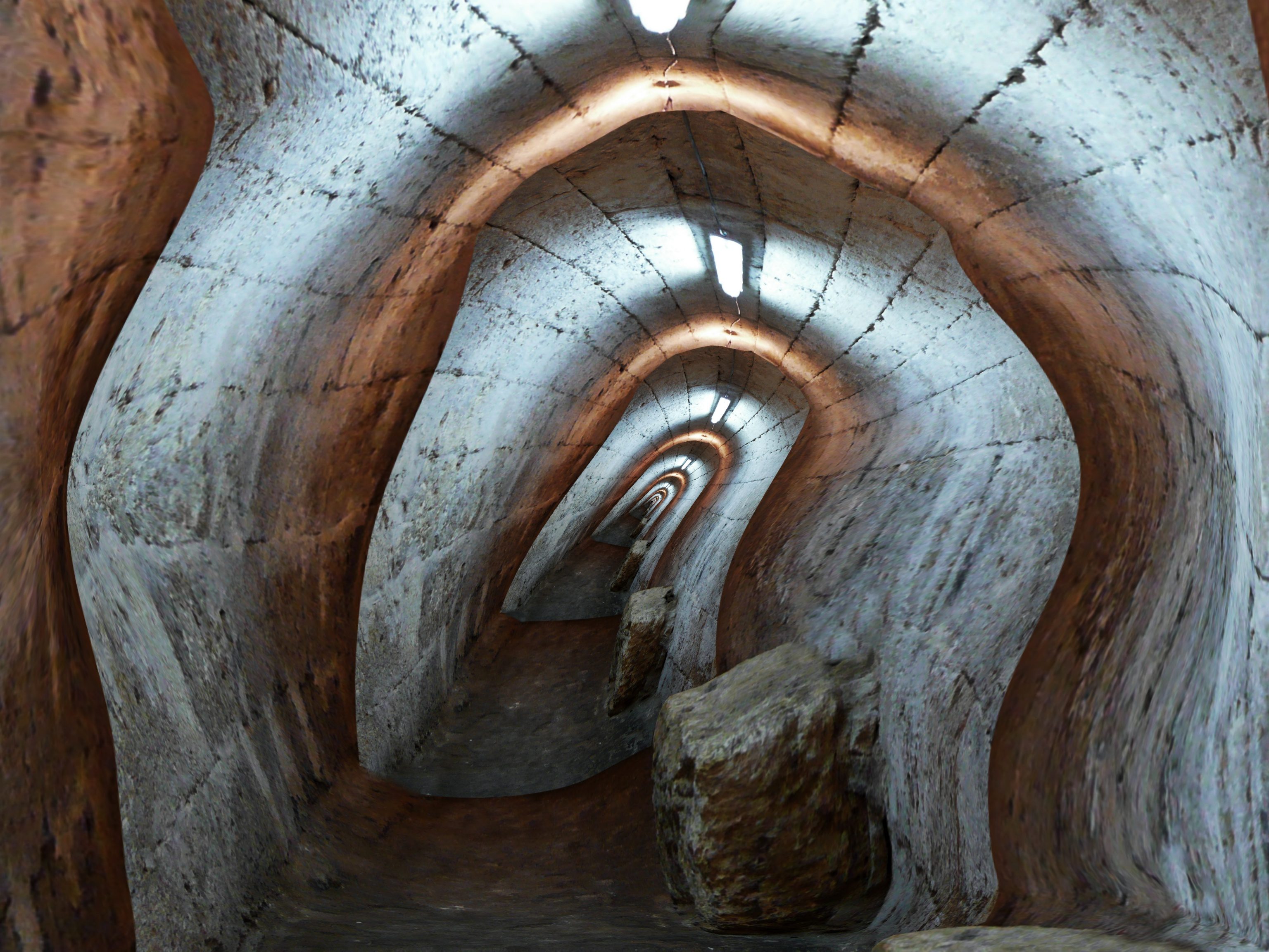 Deyrulzaferan Monastry, Mardin, Turkey. Droste effect + iWarp This JPG graphic was created with GIMP.